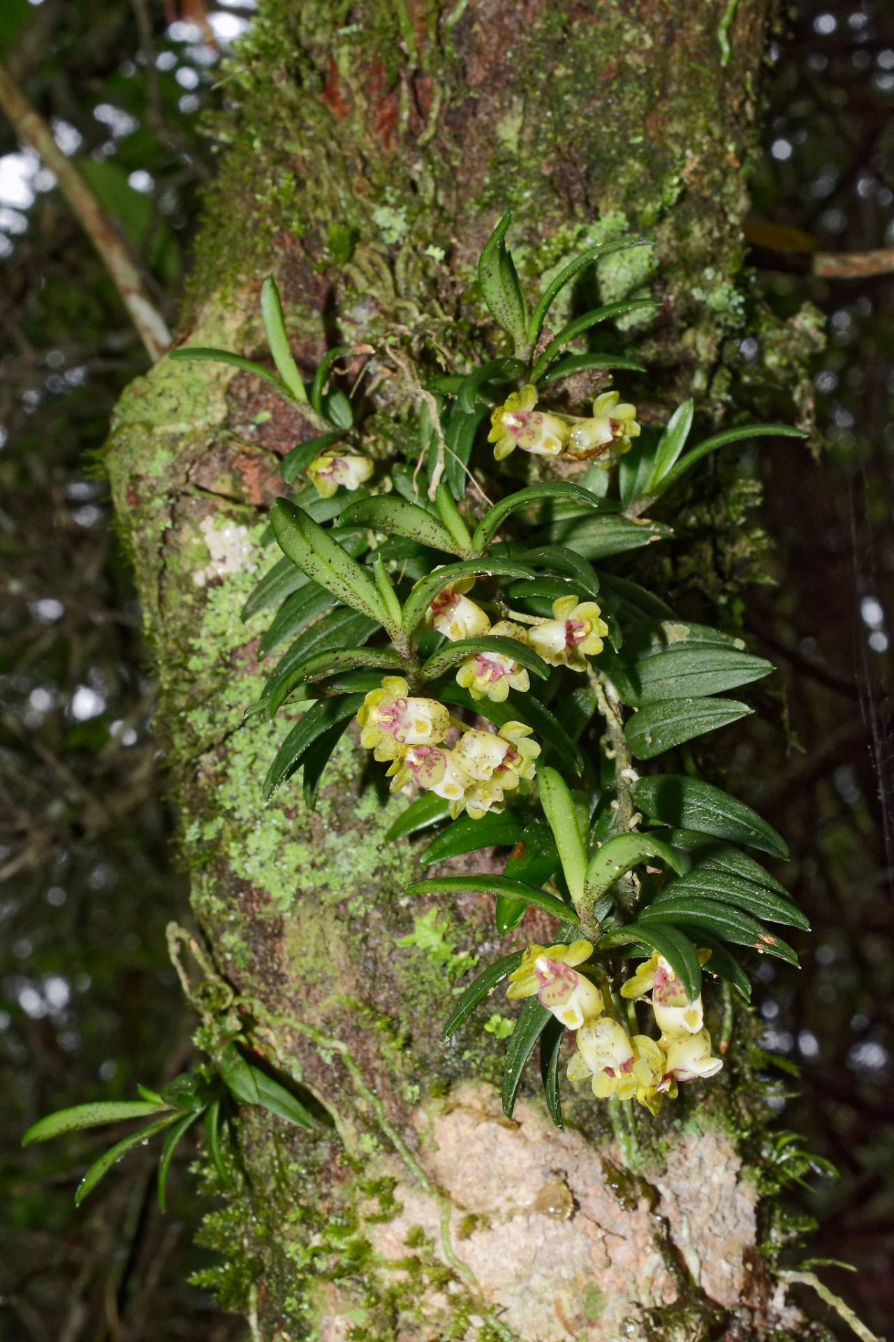 Gastrochilus fuscopunctatus plants in habitat